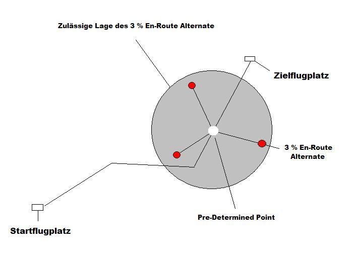 Pre-Determined Point schematic with not-to-scale presentation of 3 % En-Route Alternate